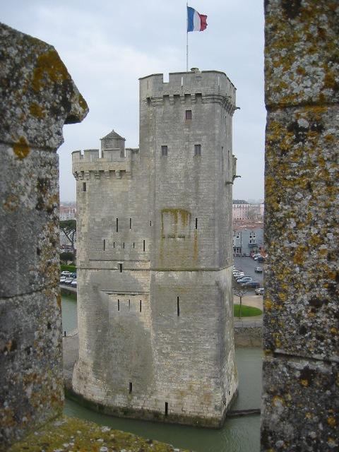 Tour St Nicolas in La Rochelle, taken from the Tour de la Chaine on April 1st 2007.